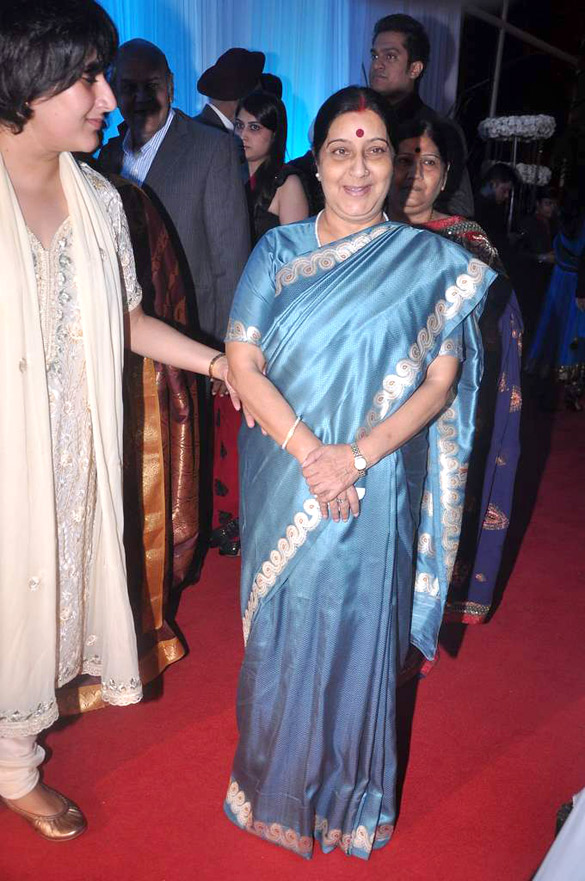 Sushma Swaraj at Esha Deol's wedding reception